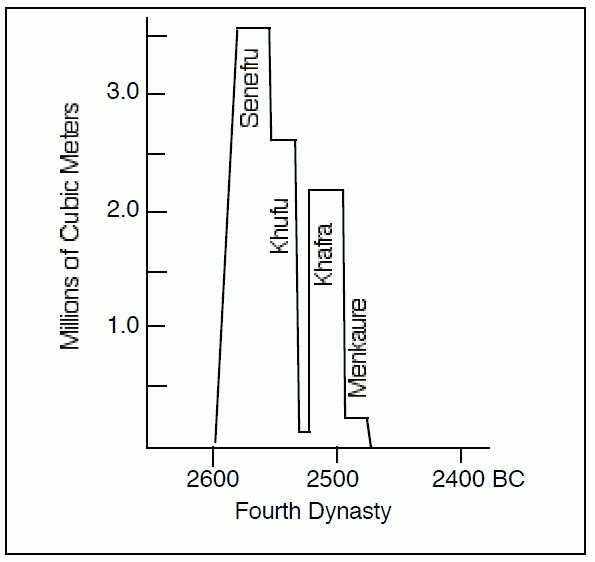 Aegypt: Fourth Dynasty - amount of stone movements over time